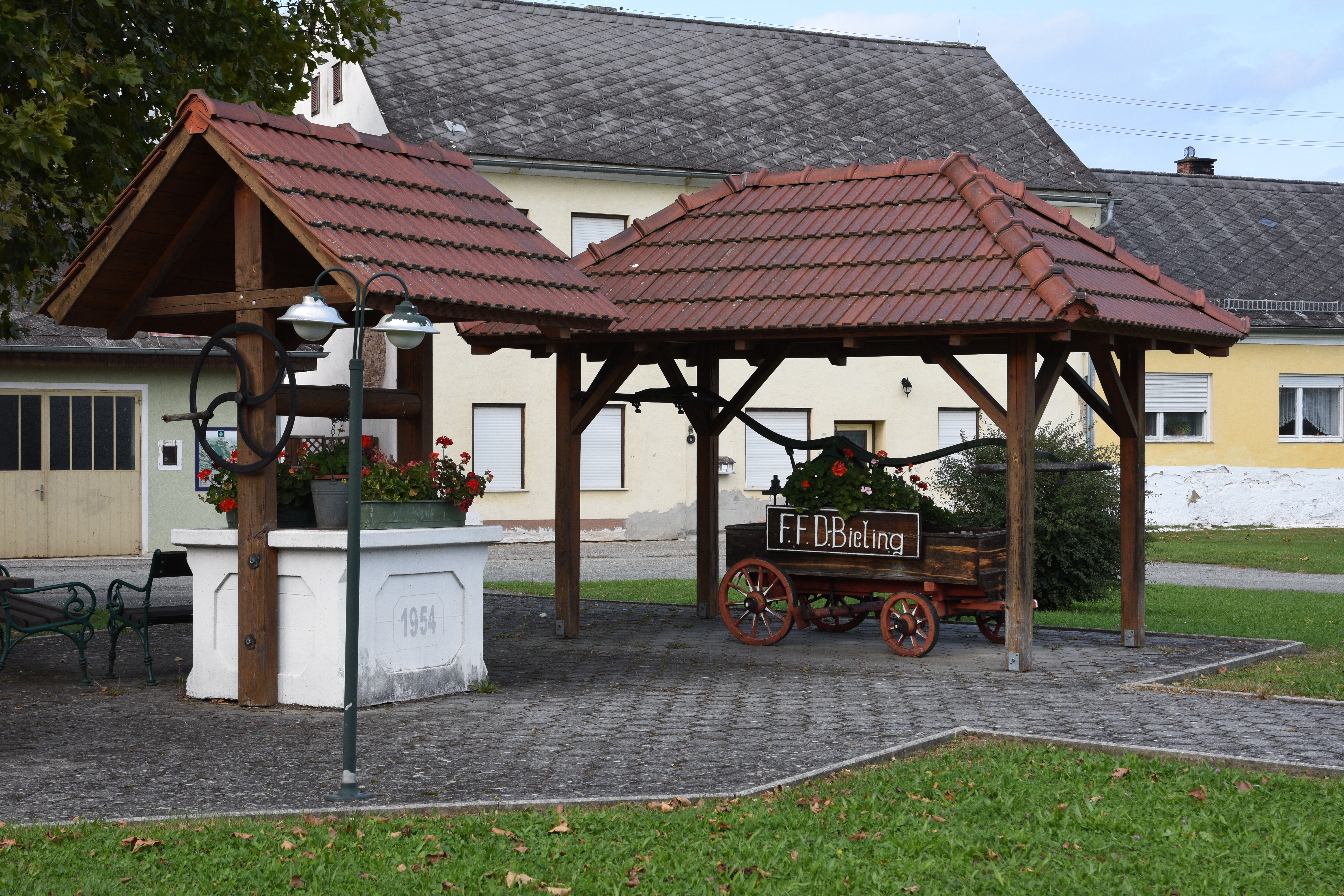 Deutsch Bieling